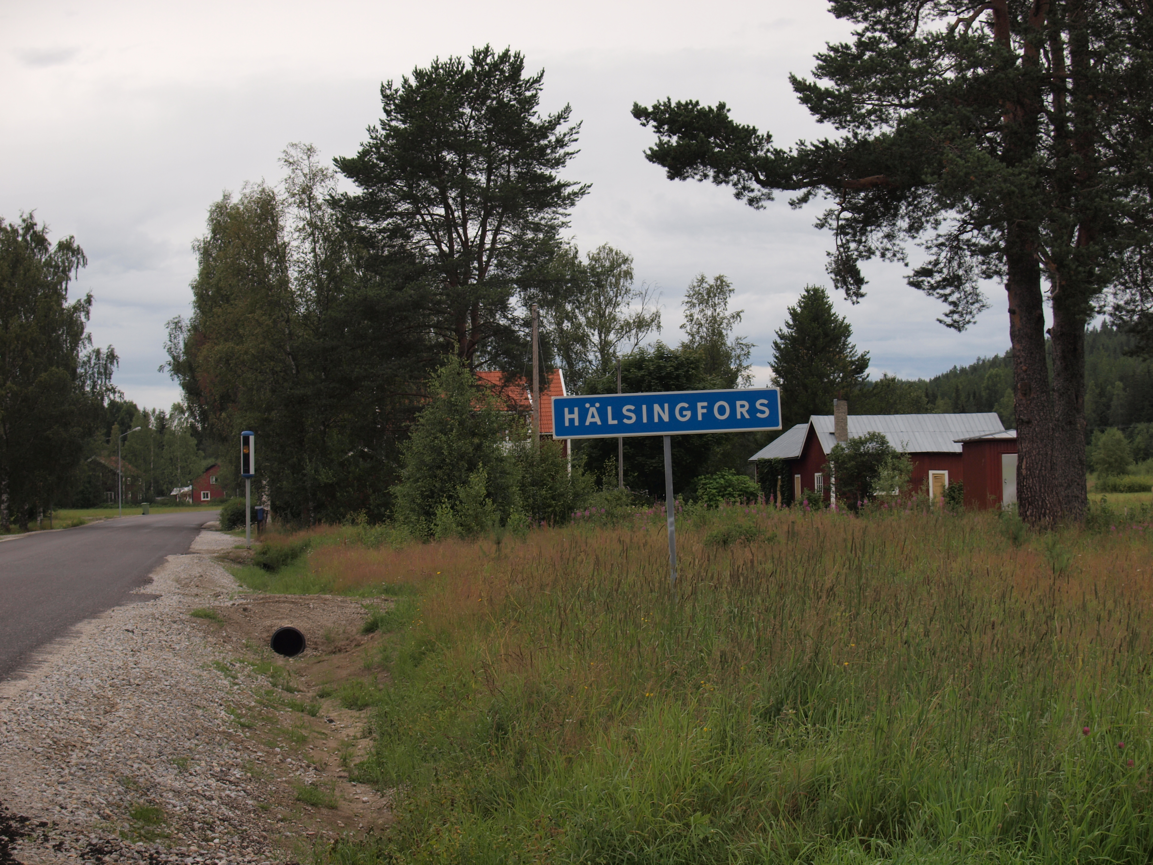 A view of Hälsingfors, Lycksele municipality, Västerbottens län, Sweden. Not to be confused with Helsingfors, the Swedish name for Helsinki, Finland.